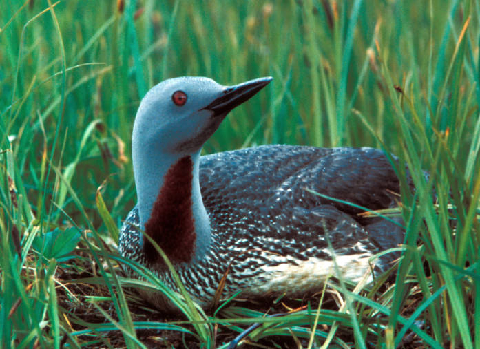 Alaska Maritime National Wildlife Refuge